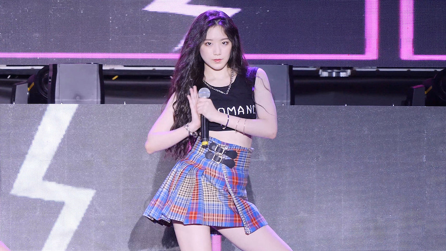 Shuhua of (G)I-dle performed "Latata" at Chinese International Student Festival on September 20, 2019.